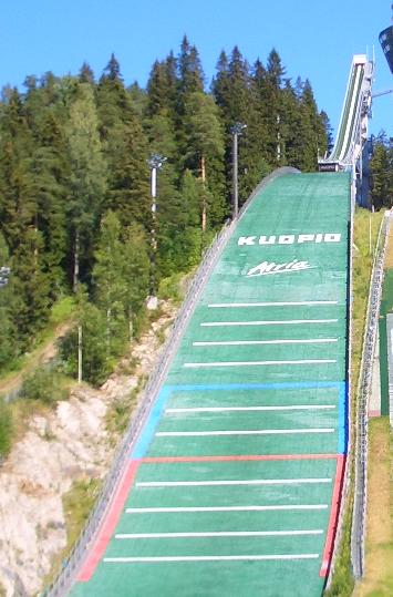 Ski jump tower K120 in Kuopio, Finland